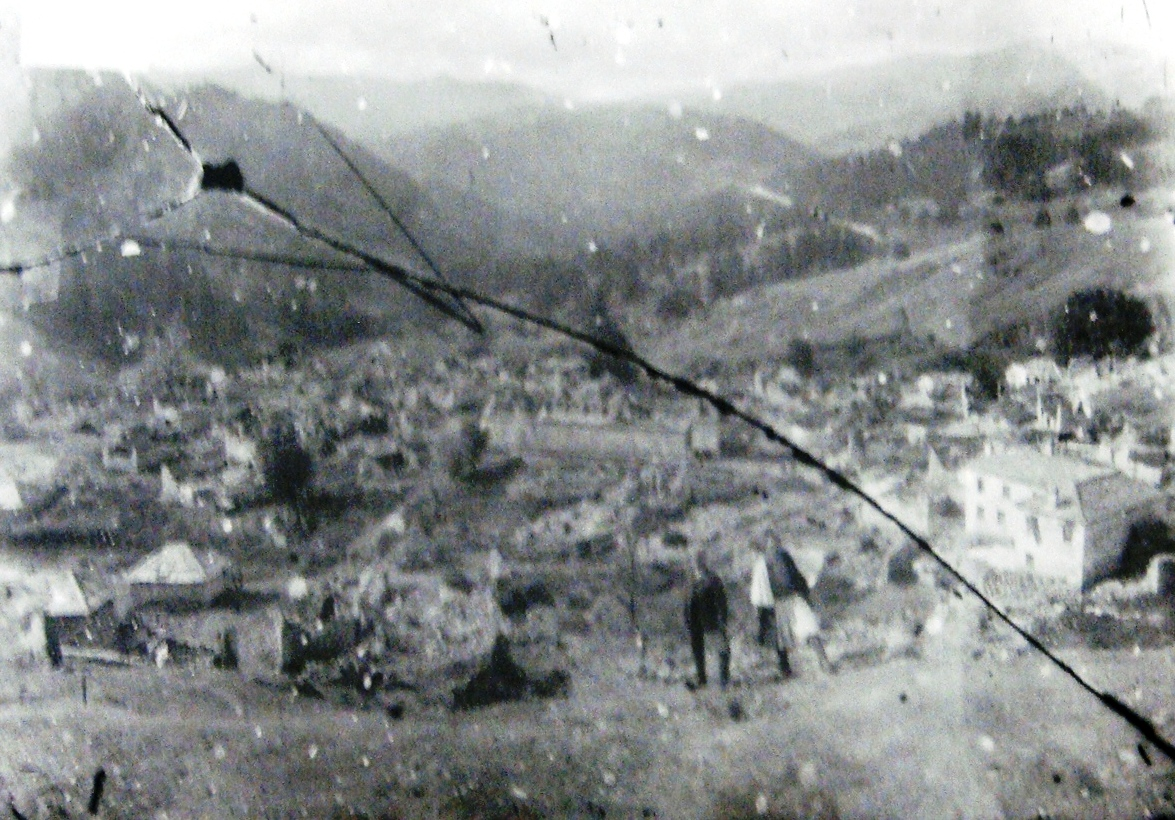 View of the village Avdella, having been burned by Andartes. On the photo can be seen Milton Manaki, who is accompanied by a little boy Kosta Eksarho. (Avdella, 1905) (Broken glass plate) This media file is produced by Wikipedian in Residence in Category:Wikipedian in Residence at DARM in 2016.